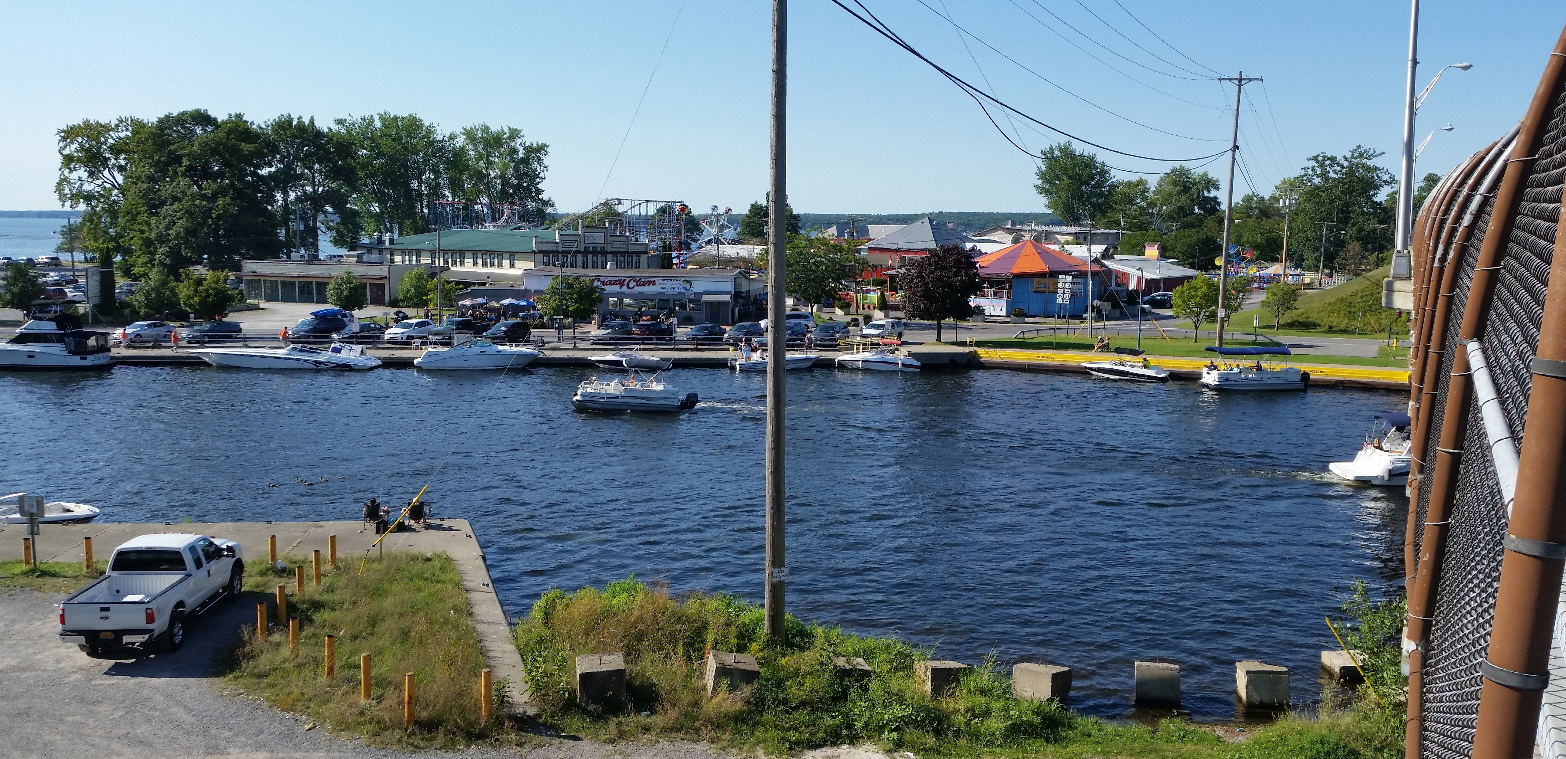 Sylvan Beach, New York, including the amusement park (background) and Erie Canal (foreground). Labor Day weekend, 2016.